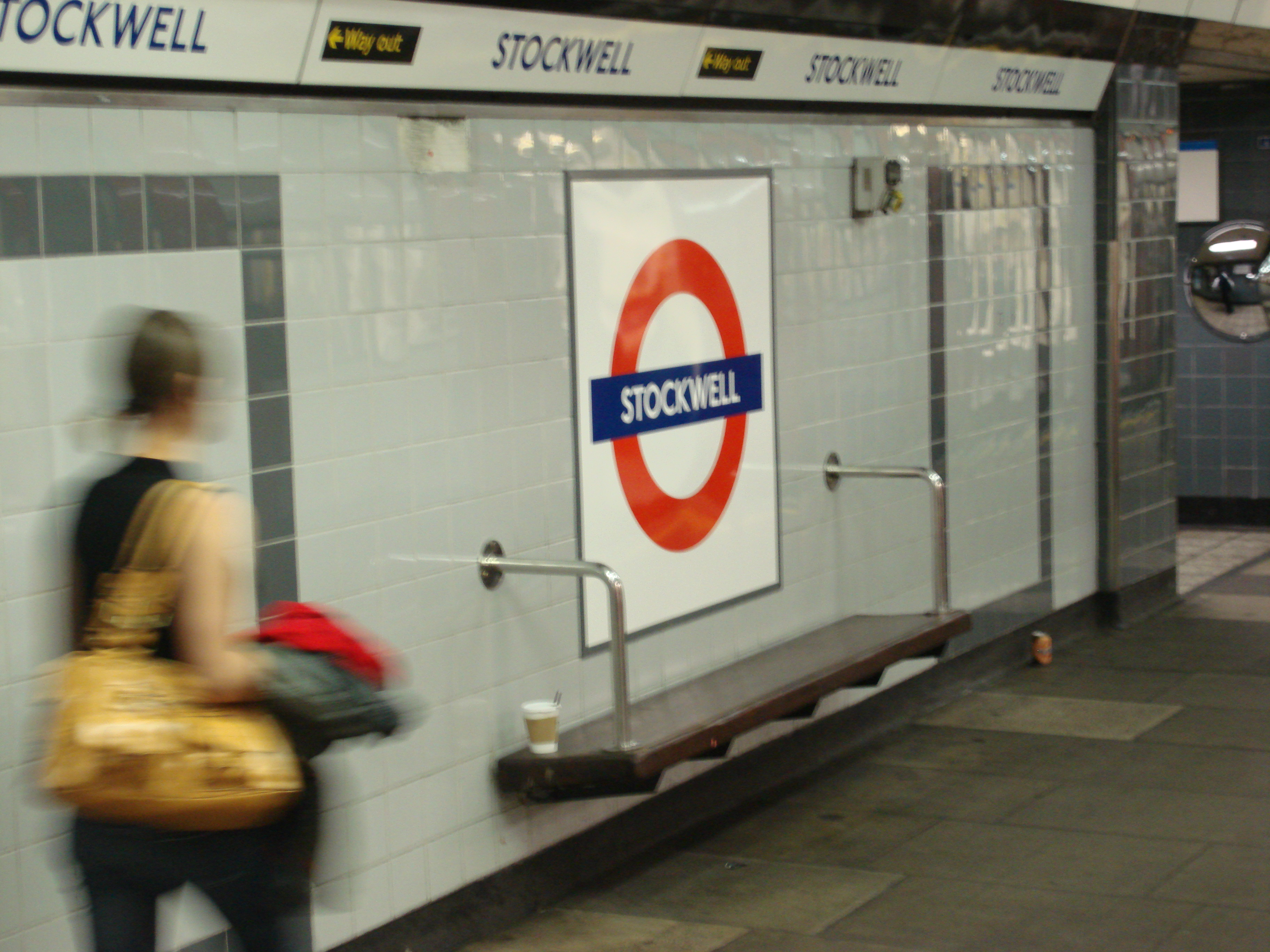 Roundel at Stockwell Underground station on the Southbound Nothern line platform